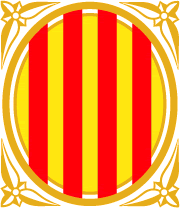 Coat of arms of the Generalitat of Catalonia, tricolour version